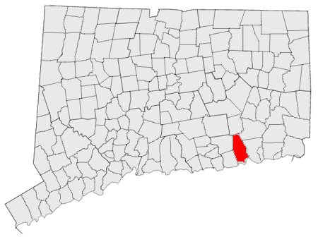 Location of East Lyme, Connecticut